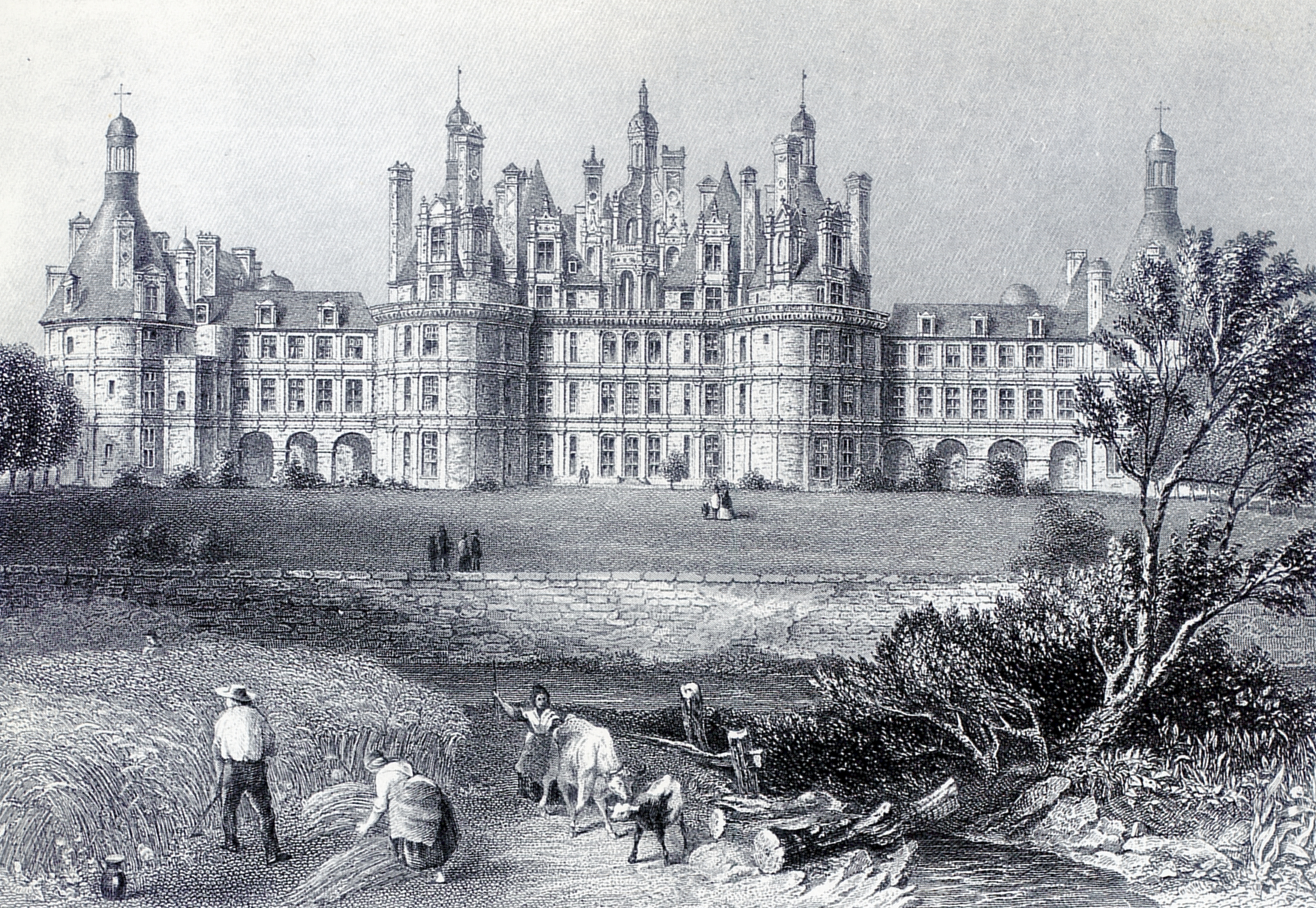 Château de Chambord, old engraving